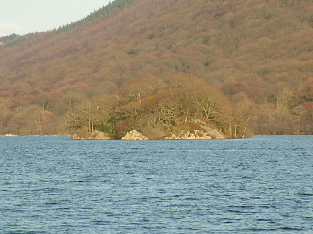 Peel Island, Cumbria, better known to many as Wild Cat Island, home to the Swallows and Amazons in Arthur Ransome's children's books.